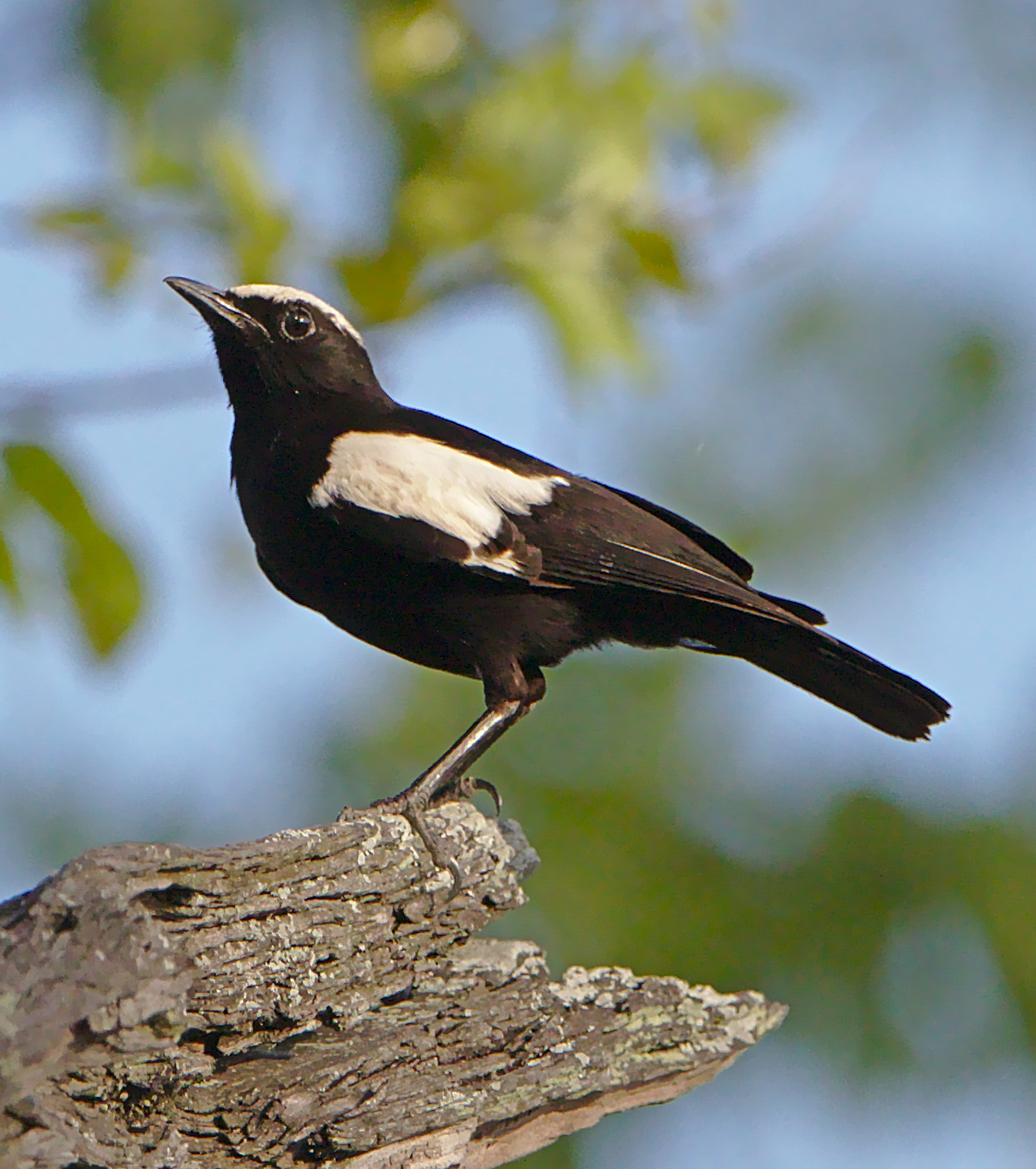 Arnot's chat, another lifer for me from the weekend in Zimbabwe